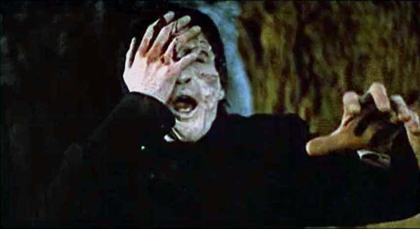 A screenshot of Christopher Lee as the monster from the Hammer Film The Curse of Frankenstein (1957)